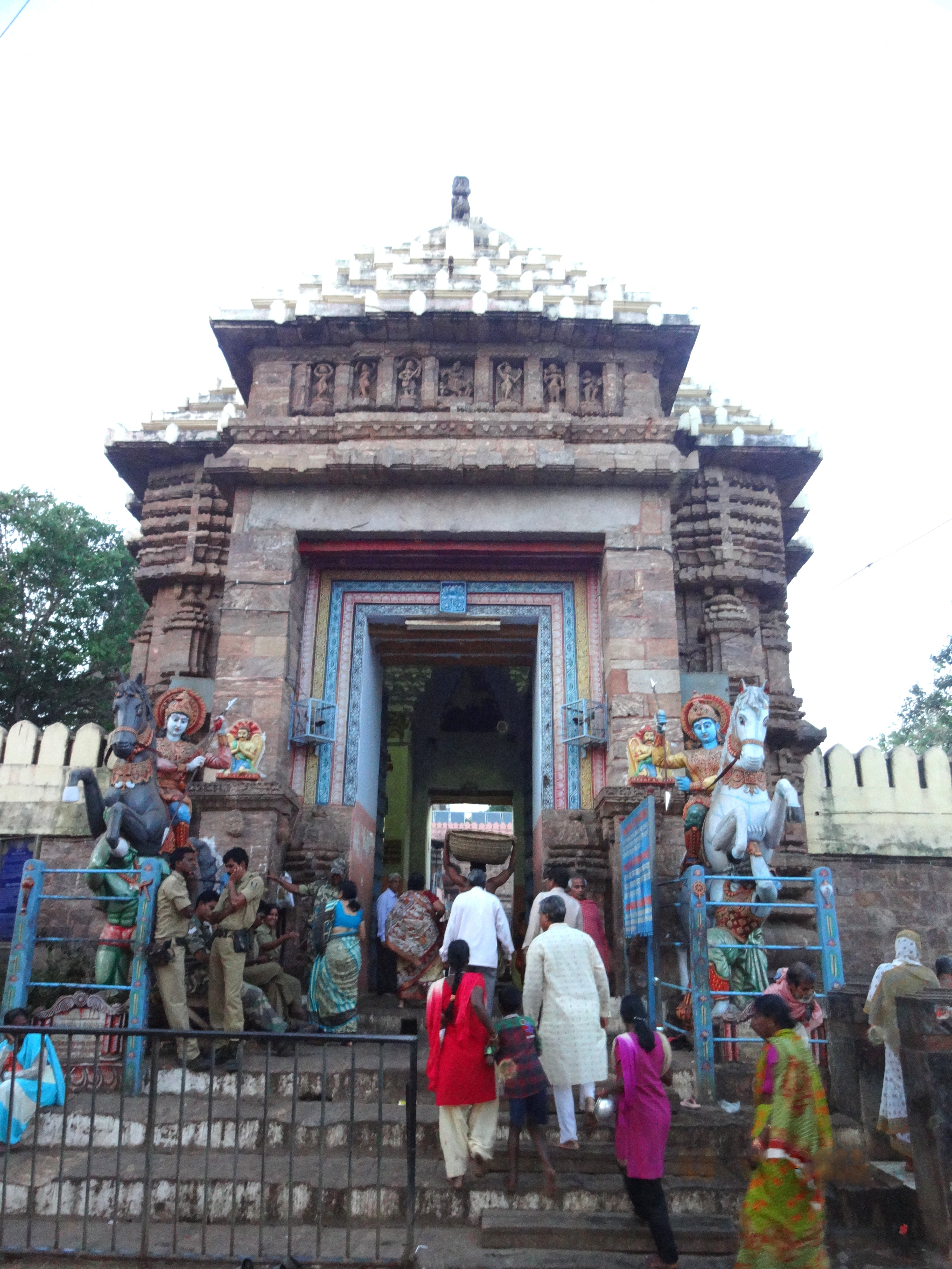 Ashwa dwara (Horse Gate) of Jagannath temple, Puri